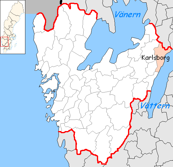 Karlsborg Municipality in Västra Götaland County Designed by me. Mere outlines are a PD source from